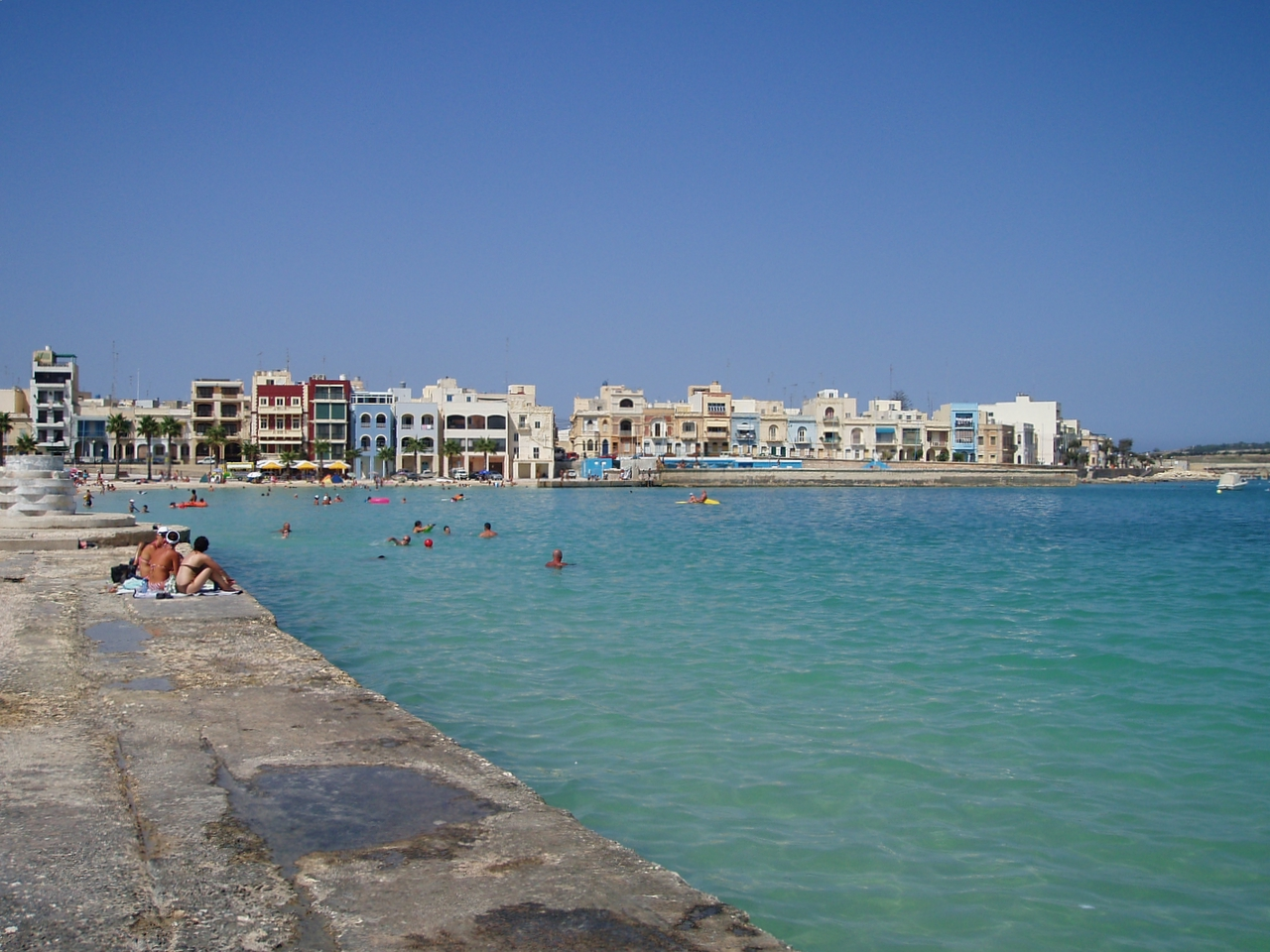 Pretty Bay at Birżebbuġa, Malta